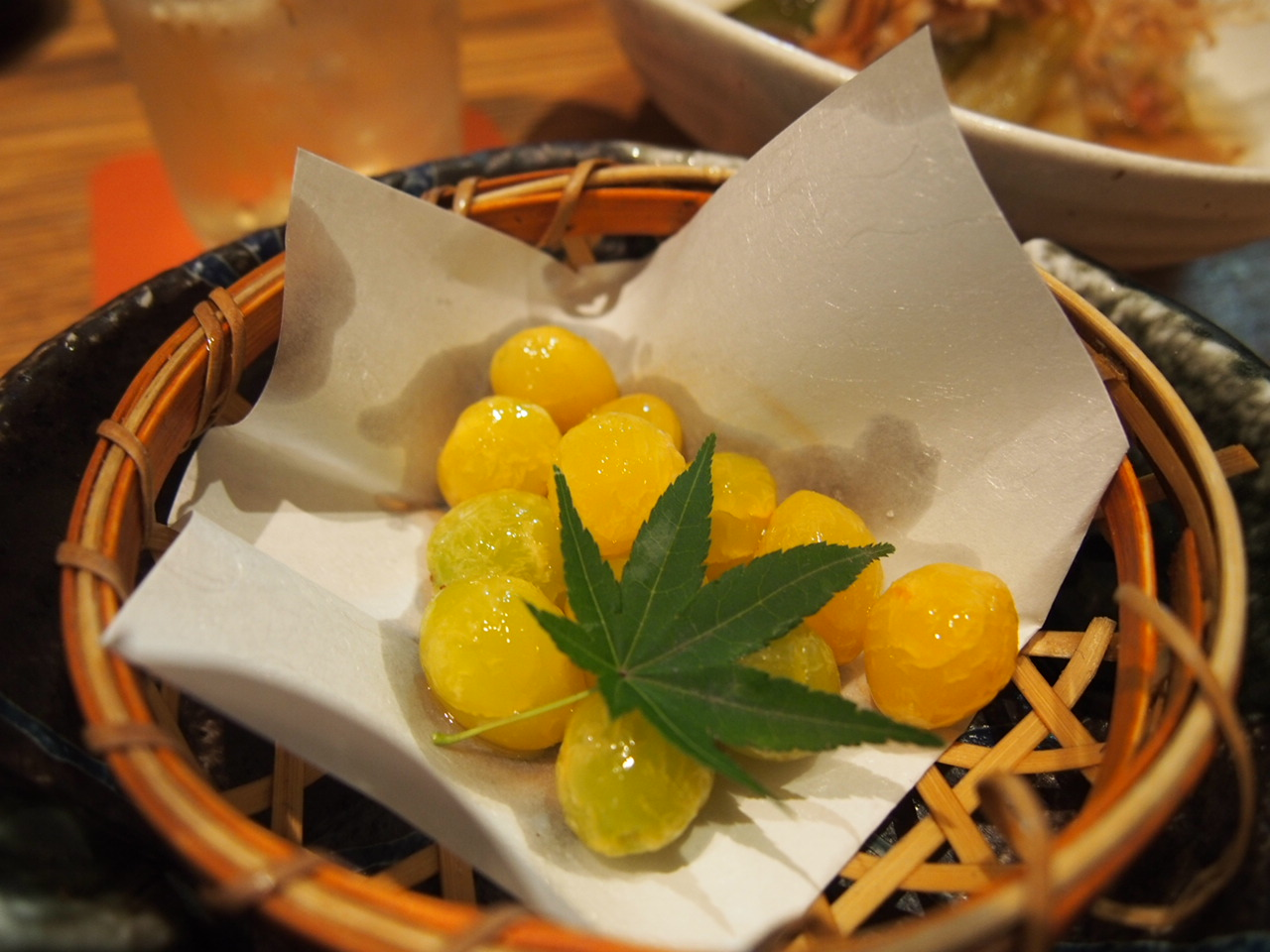 Autumn is the season for gingko nut!